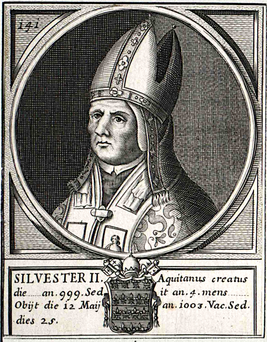 Silvester II., papa (um 945 - 1003)